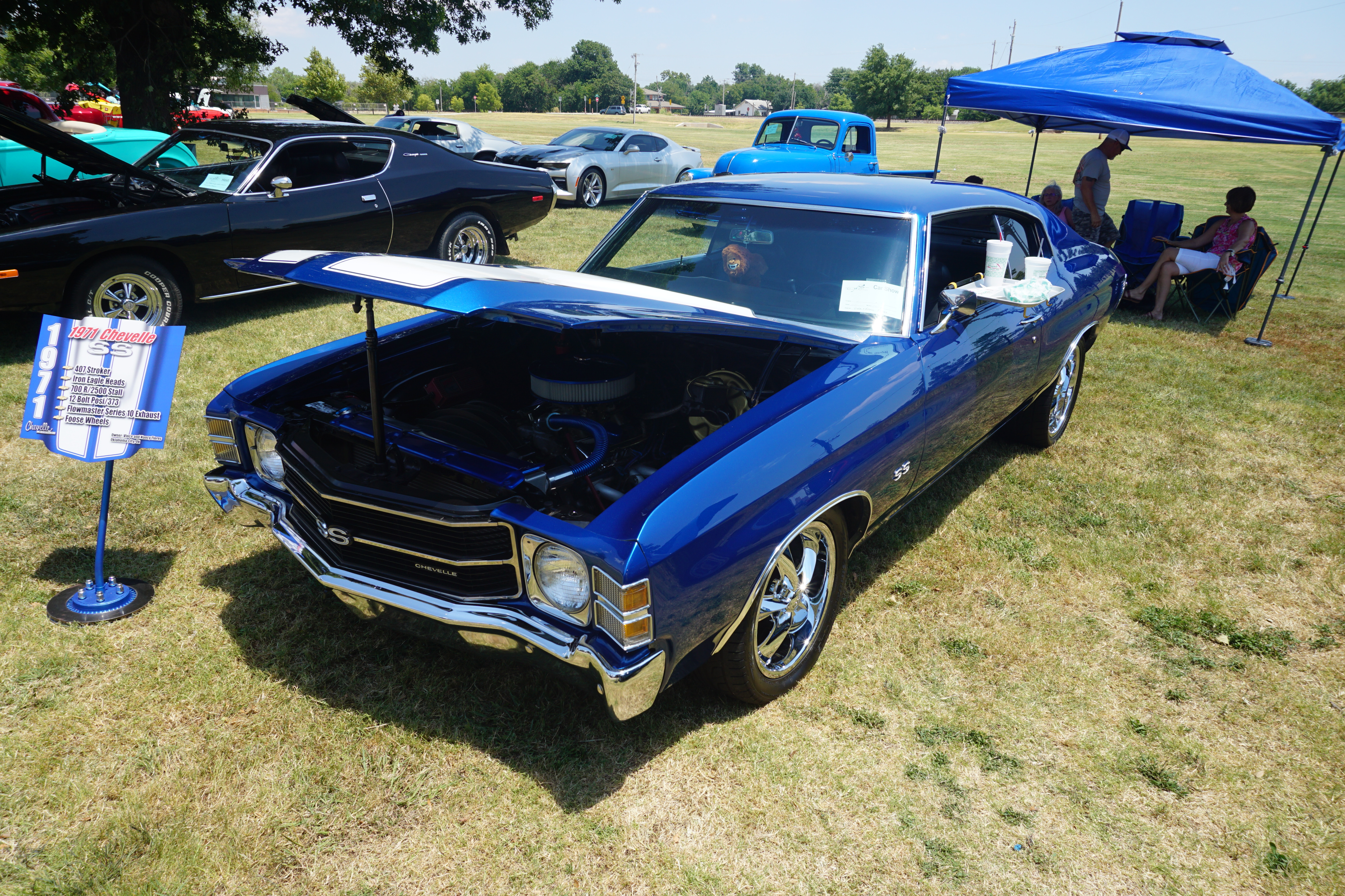 A 1971 Chevrolet Chevelle SS at the 2019 Food & Shelter Car Show at Andrews Park in Norman, Oklahoma (United States).